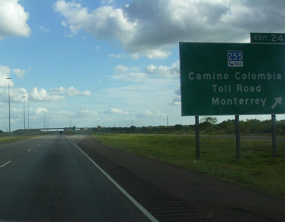 IH 35 and Camino Colombia Intersection